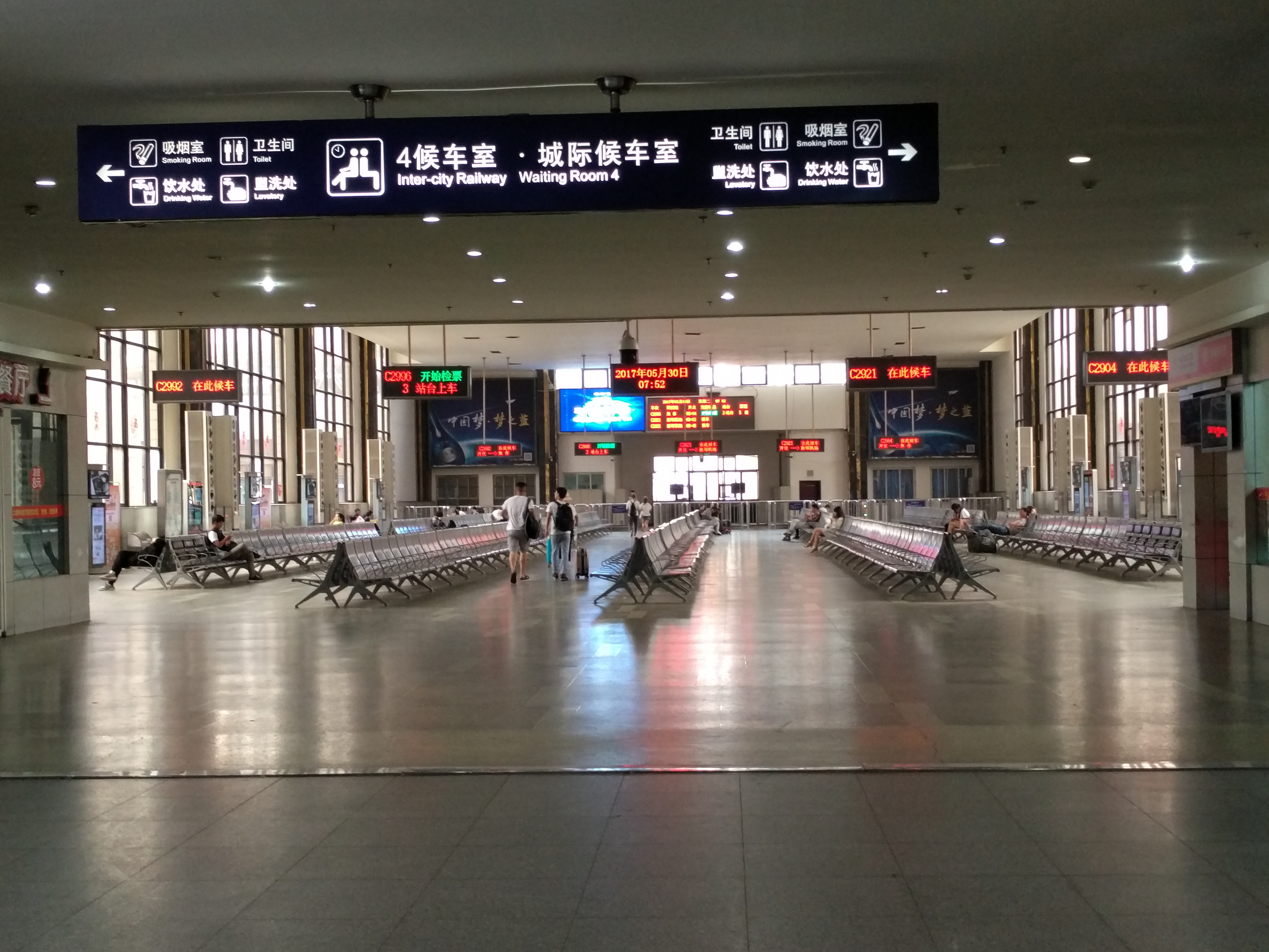 Such a vacant waiting room is not very common to be seen at Zhengzhou Railway Station.